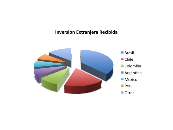 Inversion de entrada el 2012